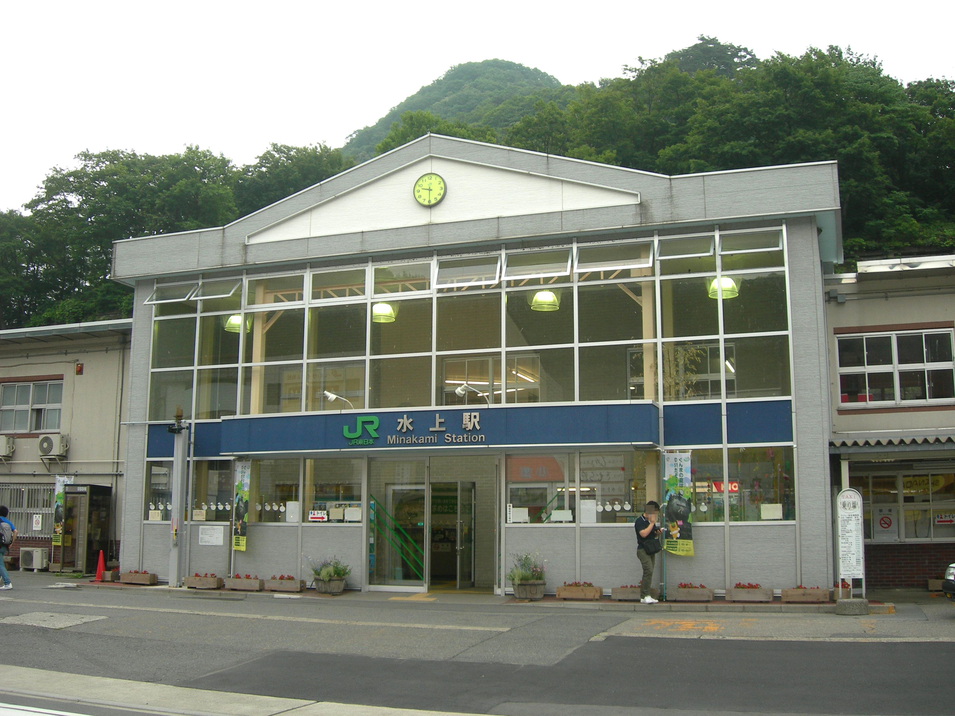 Minakami Statio